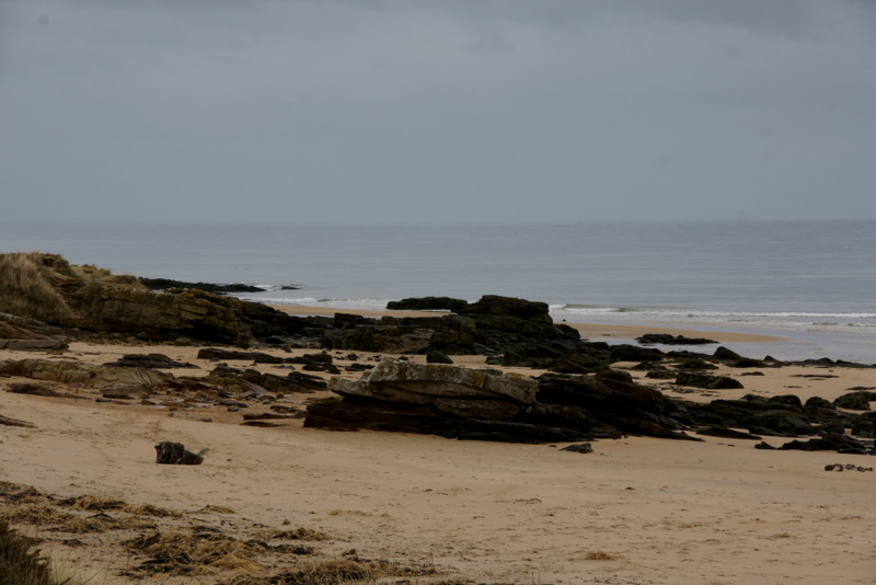 Rocks on Dornoch beach